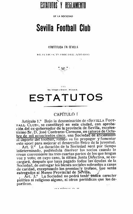 Estatutos SFC